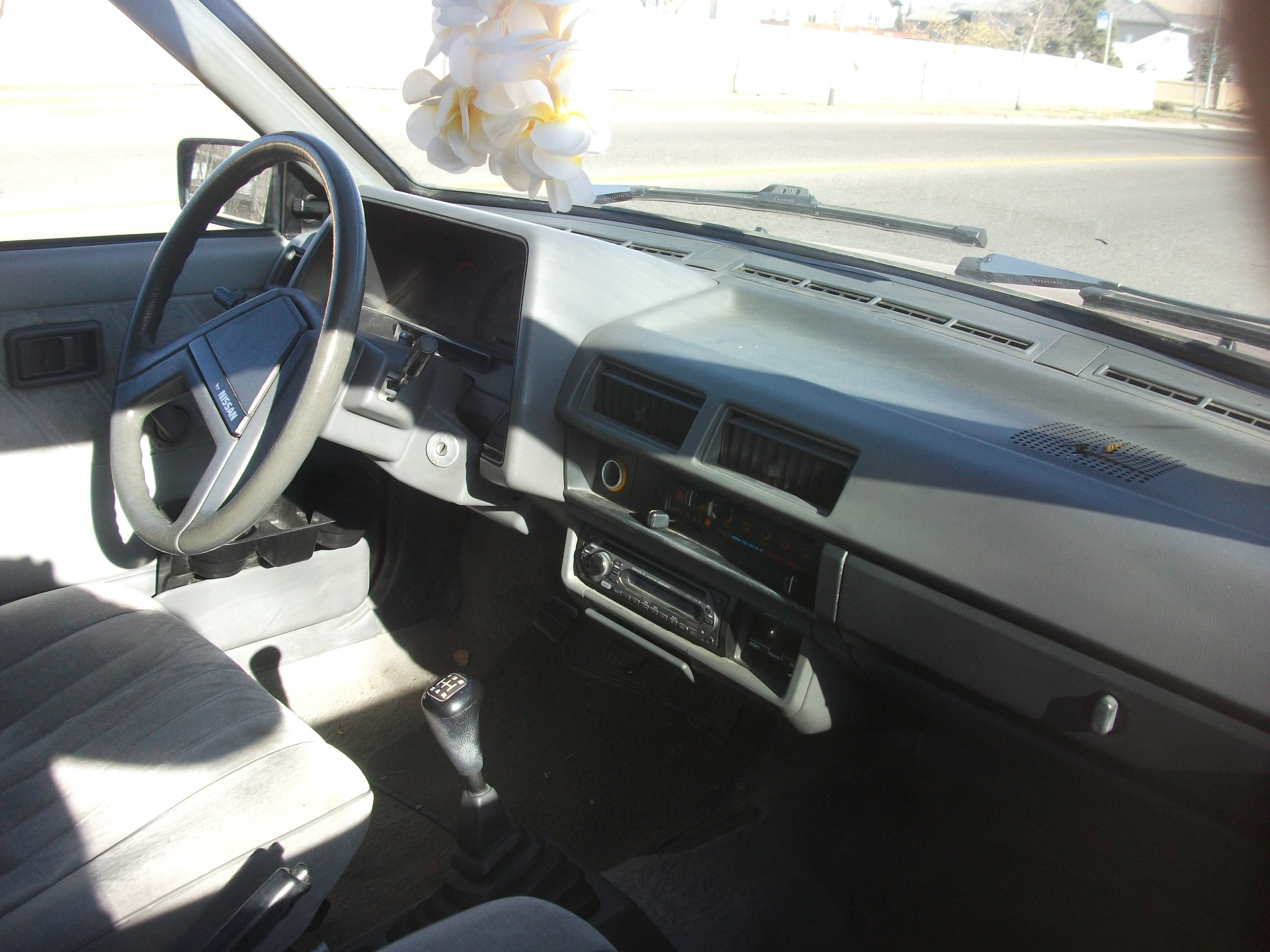 Nissan Sentra interior - 5spd manual.